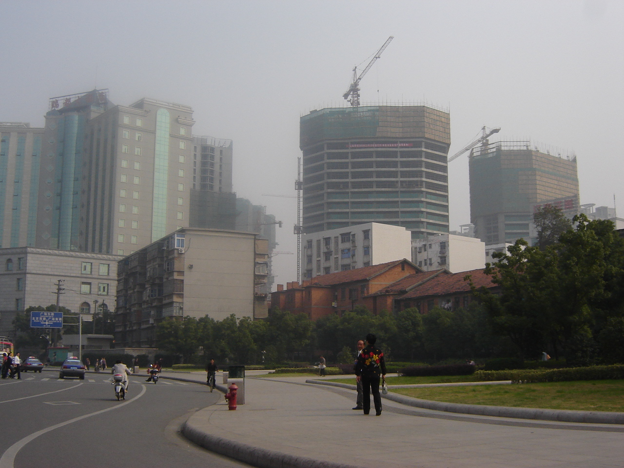 Buildings in Nanchang, JX, PRC